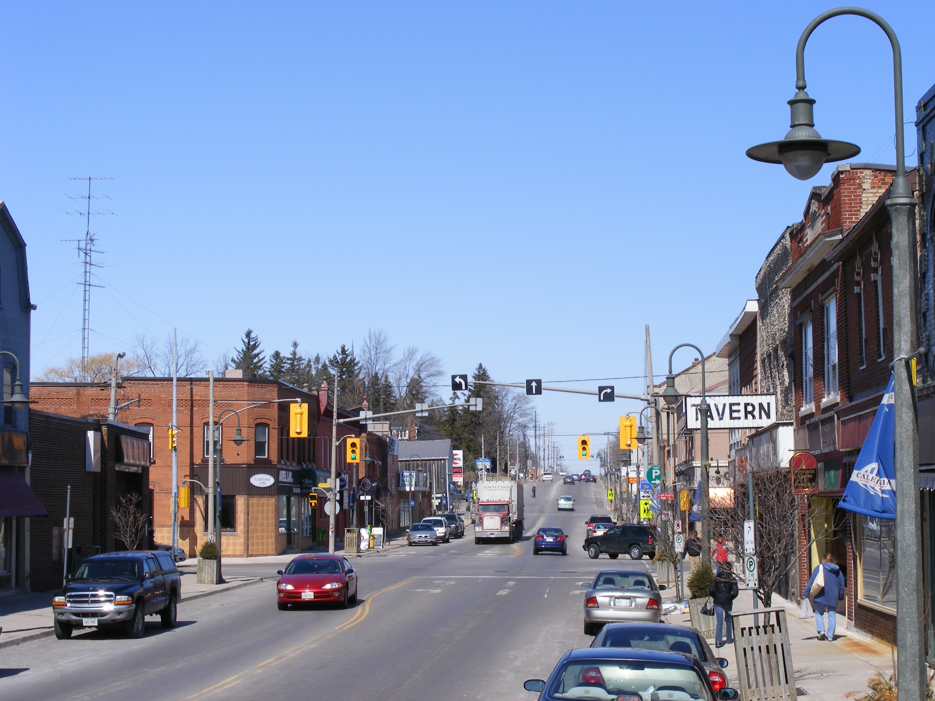 View along Argyle Street North in Caledonia, Ontario. Date: March 24, 2008 Source: Photo by me, User:Balcer.